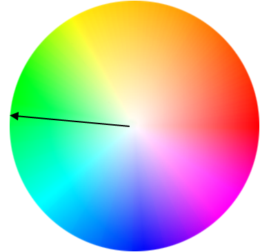 A monochrome line on a colorwheel